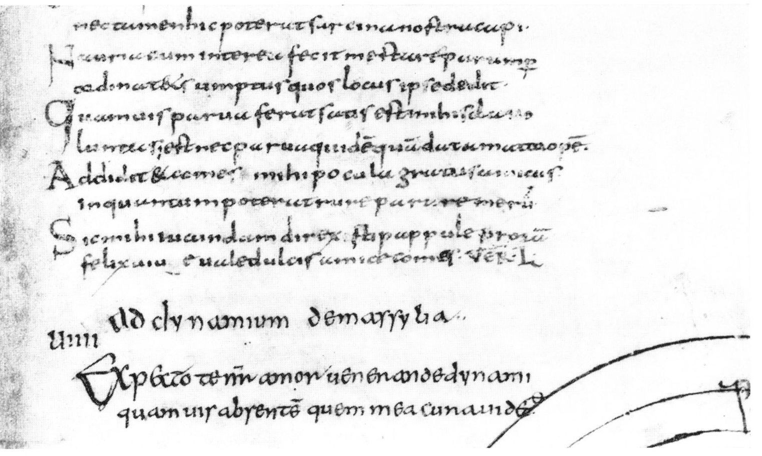 Venantius Fortunatus, Poems, with two verses by Dungal of Bobbio. Milan, Biblioteca Ambrosiana, C 74 sup., fol. 28r.